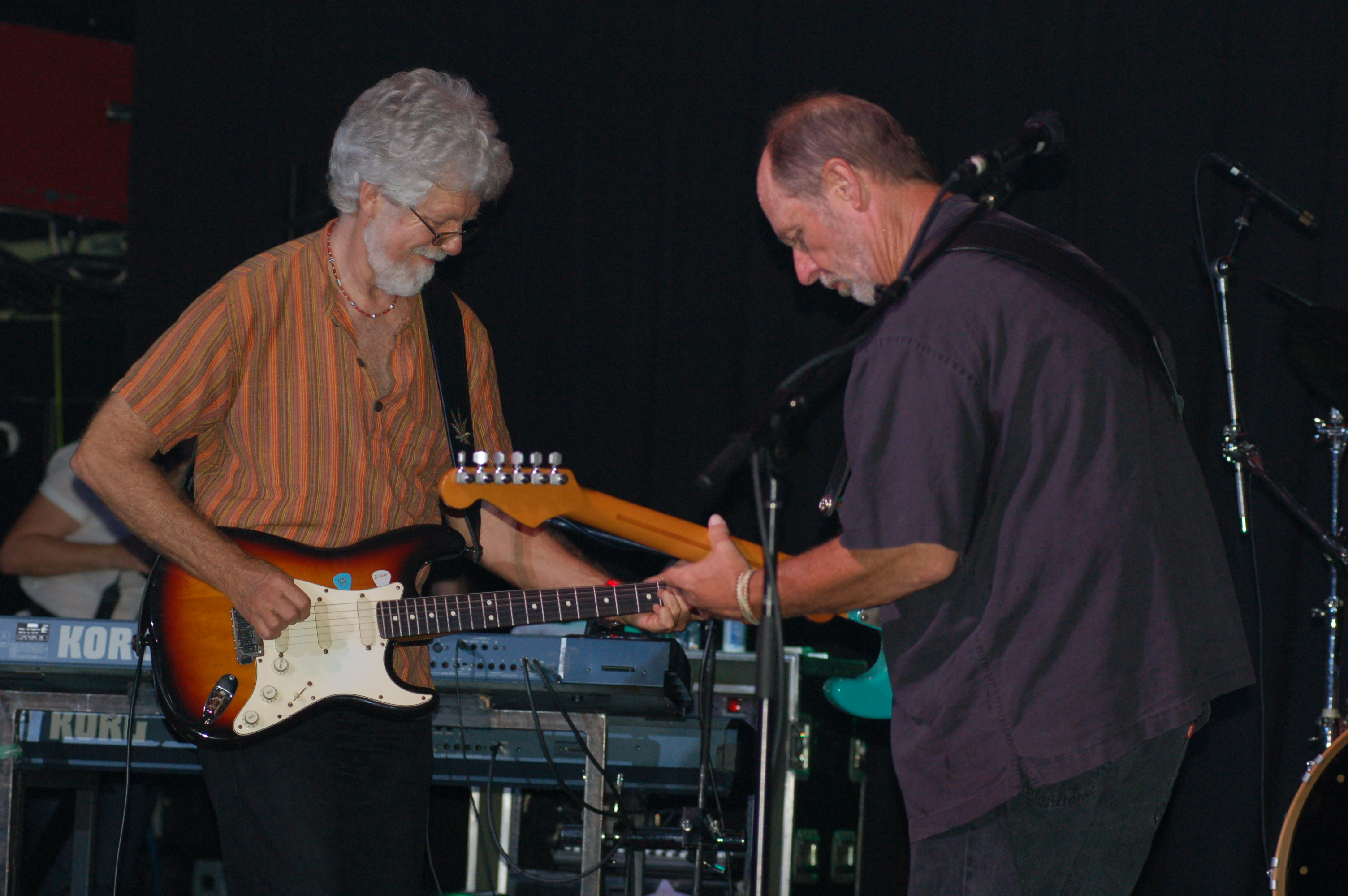 Fred Tackett and Paul Barrere - a spin-off from the folk-rock band, Little Feat, who play both acoustic and alternative jam band music as a duo.